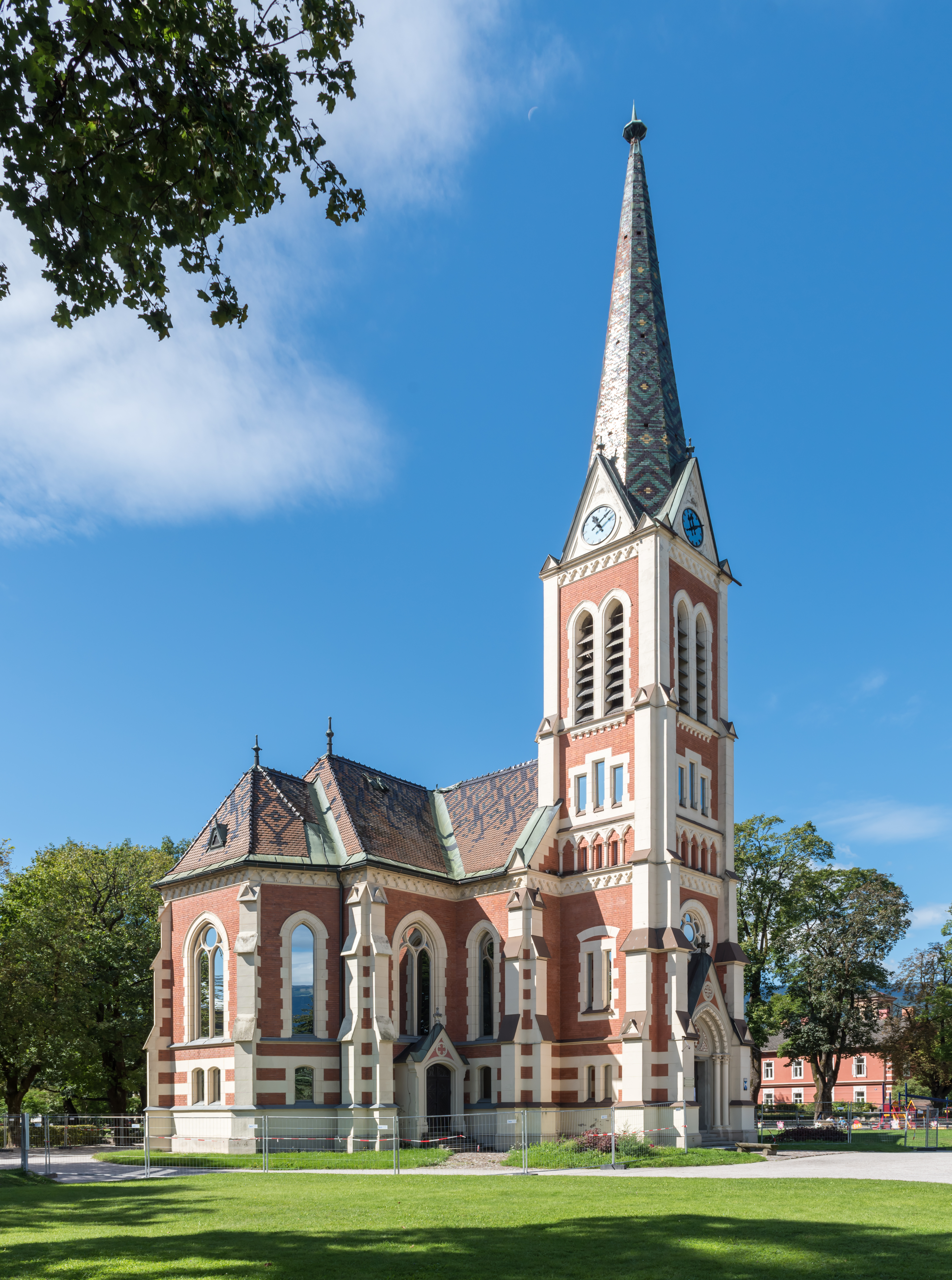 Lutheran parish church (built in Gothic revival style in 1902 according to plans of Ludwig Schöne, consecrated in 1903), Wilhelm Hohenheim Strasse, borough Perau, statutary city Villach, Carinthia, Austria, EU